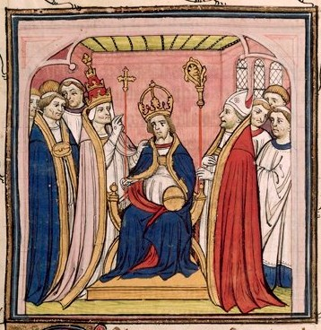 Henry of Luxembourg being crowned Emperor